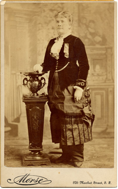 Marietta Stow, standing, CDV